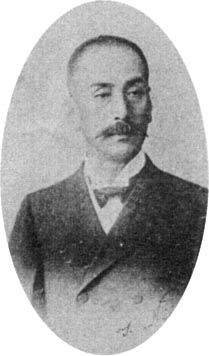 Takamasa Niinomi, Chief of Architecture Department of Koshu Gakko.